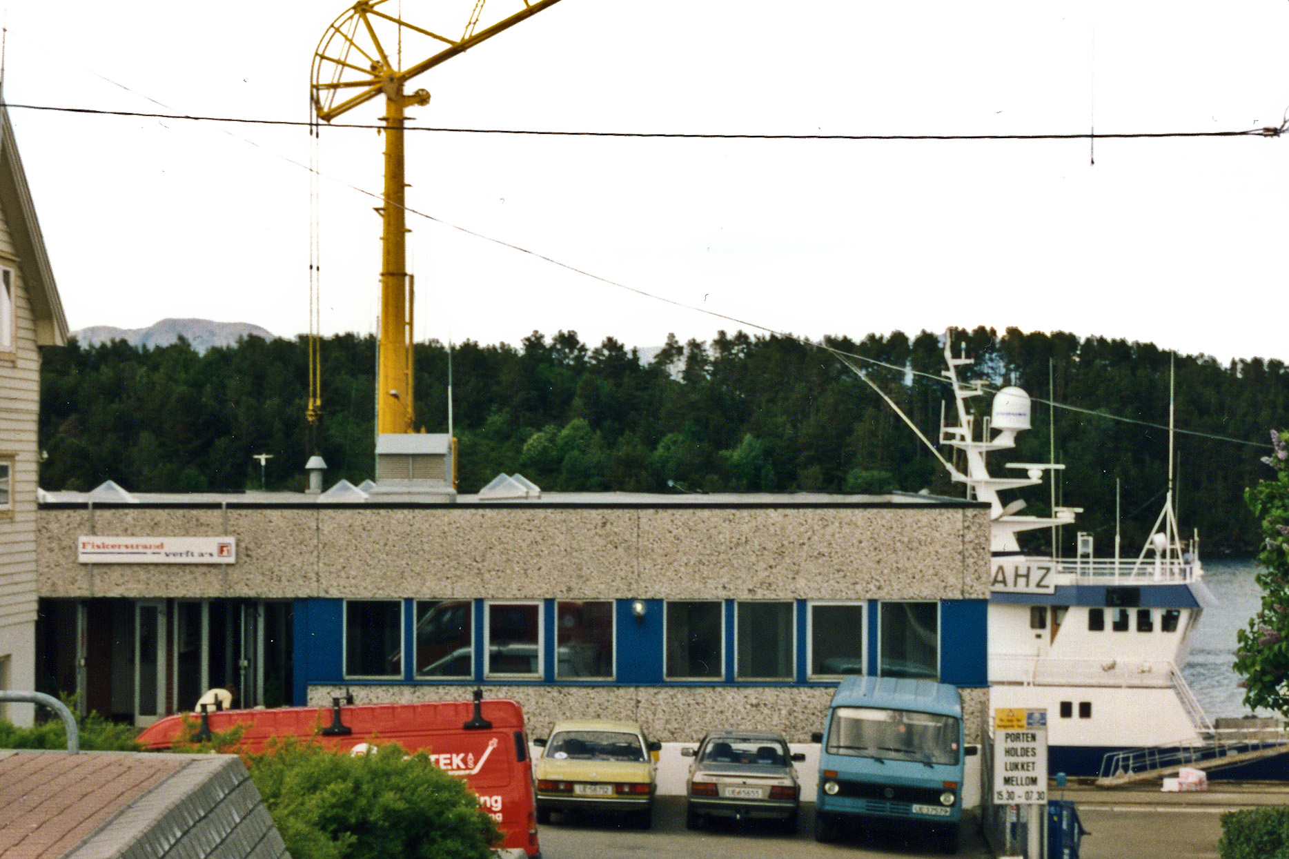 Fiskarstrand verft in Fiskerstrand, Sula, Møre og Romsdal county, Norway.